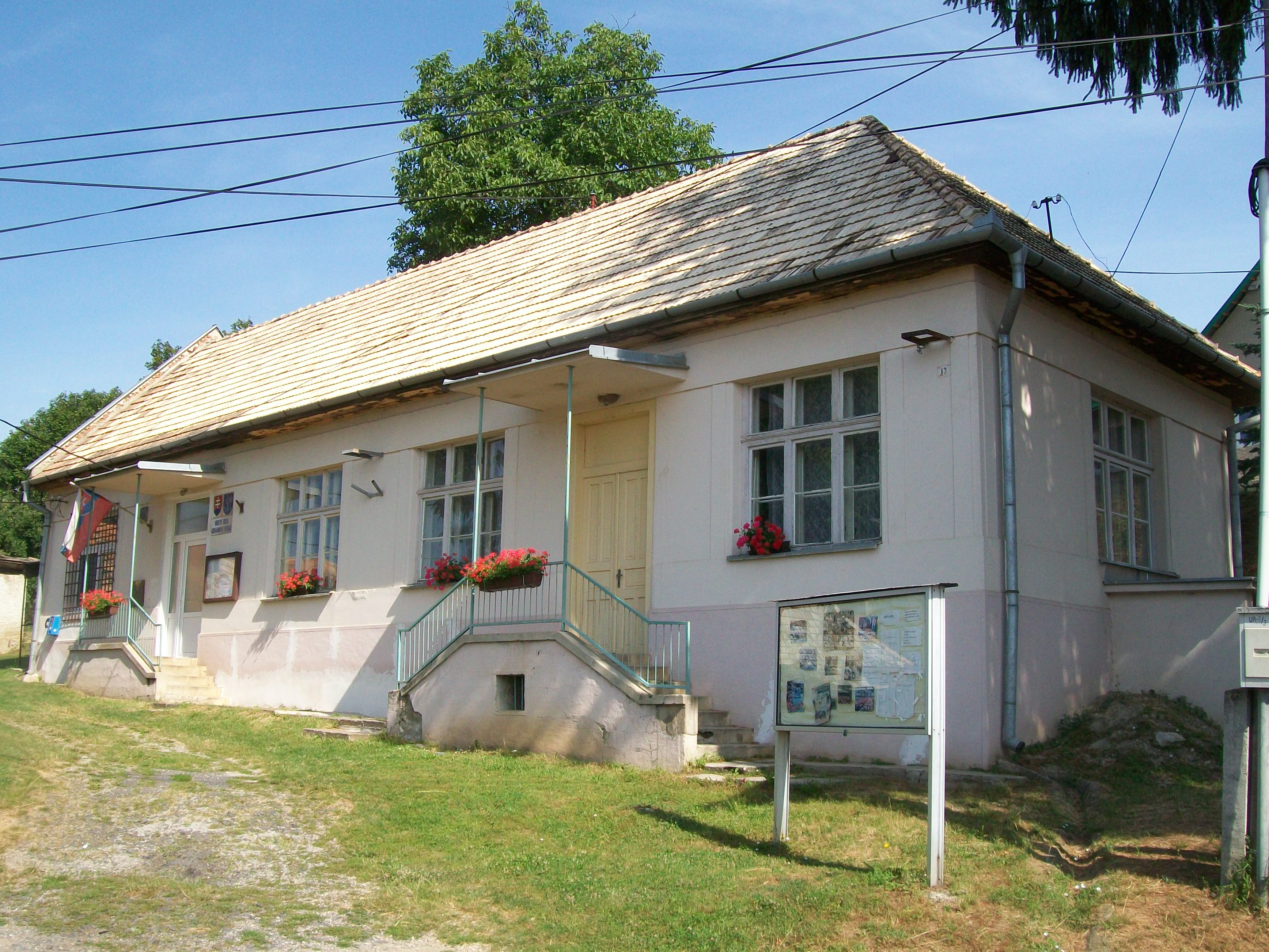 Municipal Office in Gregorova VieskaSlovenčina: Obecný úrad v Gregorovej Vieske